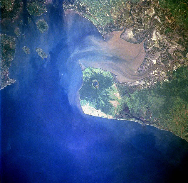 Gulf of Fonseca, El Salvador, Honduras, Nicaragua Three Central American countries—El Salvador (northwest), Honduras (east), and Nicaragua (south)—share the Gulf of Fonseca. Although the gulf is fairly large in size, measuring 70 miles (113 km) in northwest—southeast extent, its fragile ecosystem is being damaged at an alarming rate. The gulf’s two major natural resources (mangrove forests and fisheries) are being depleted with serious consequences to the long-term effects of the marine environment, specifically the shrimp industry. Poorly marked international boundaries within the gulf have only exacerbated the economic problem. The angular patterns at the southeast end of the gulf are ponds used for the production of shrimp. The southeast end of the gulf also exhibits a large sediment plume in the water. The roughly oval-shaped feature near the north end of the Nicaraguan peninsula is the caldera of Cosiguina Volcano, a stratovolcano that last erupted in 1835. The summit of Cosiguina Volcano is 2818 feet (860 meters) above sea level and the caldera is approximately 1.2 miles (2 km) in diameter. The darker area that rings the caldera shows an area of dense, tropical vegetation.